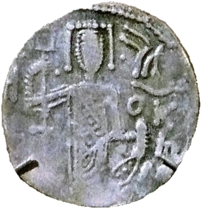 Silver Asper of Manuel I Komnenos of Trebizond, 1237-1263